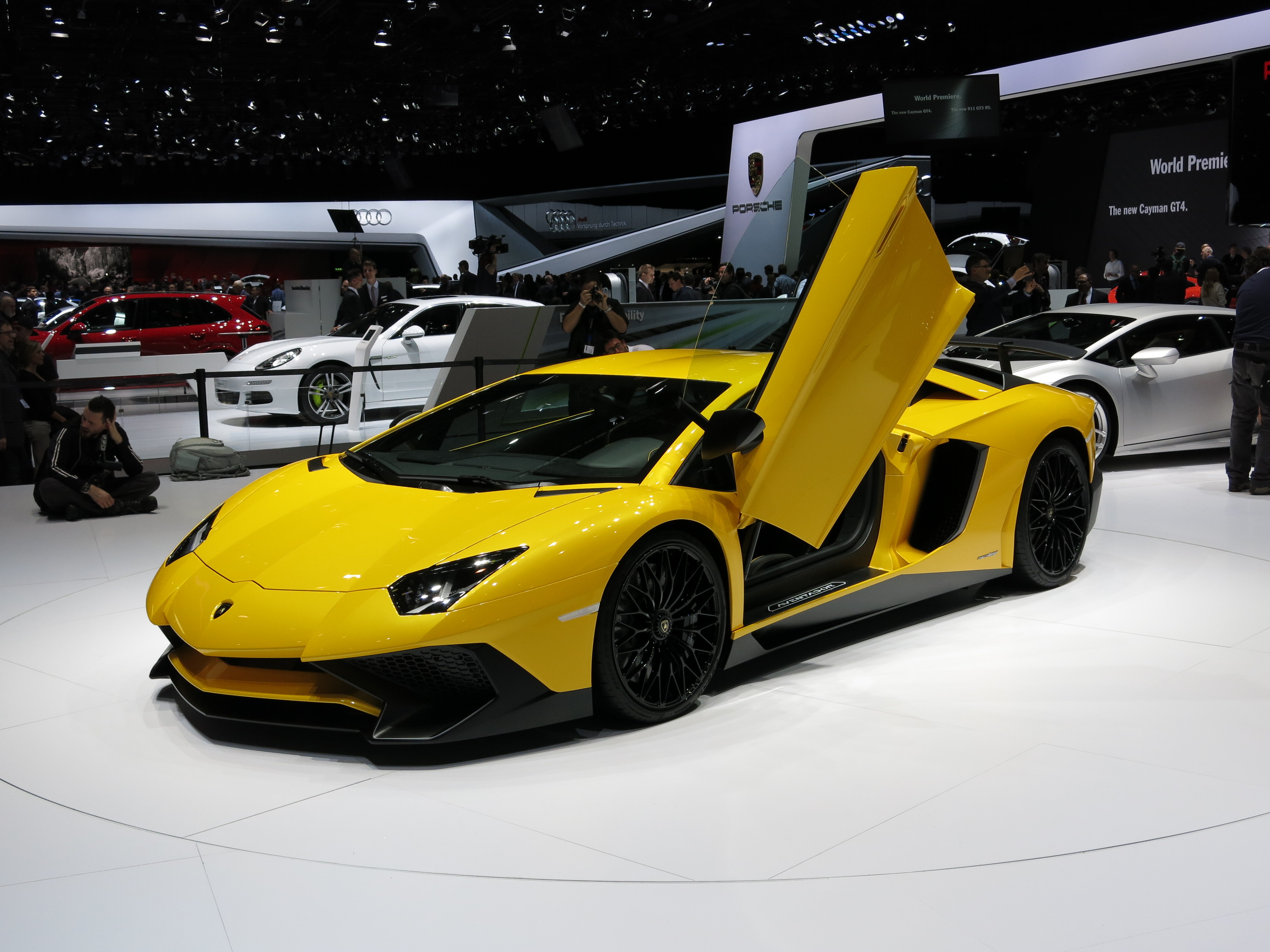 Geneva Motor Show 2015 (photo taken on the first press day)